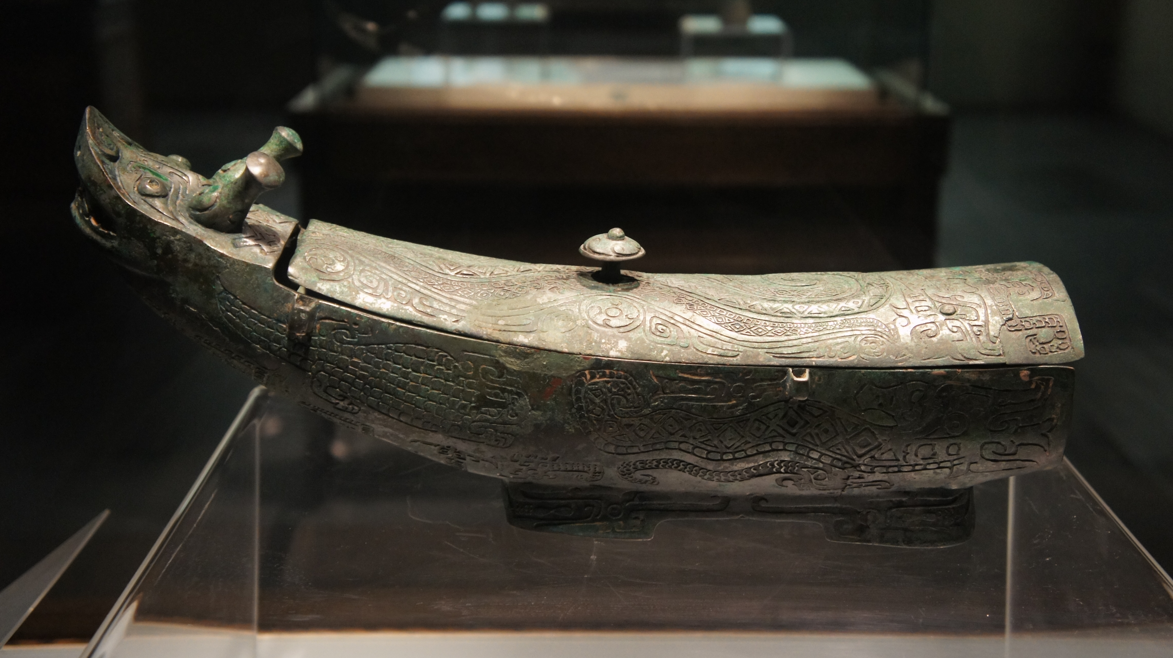 Bronze vessel guang with alligator diagram from Shang dynasty (1600 BC-1046 BC), excavated at Shilou County, Lüliang, Shanxi. See also 2nd and 3rd picture